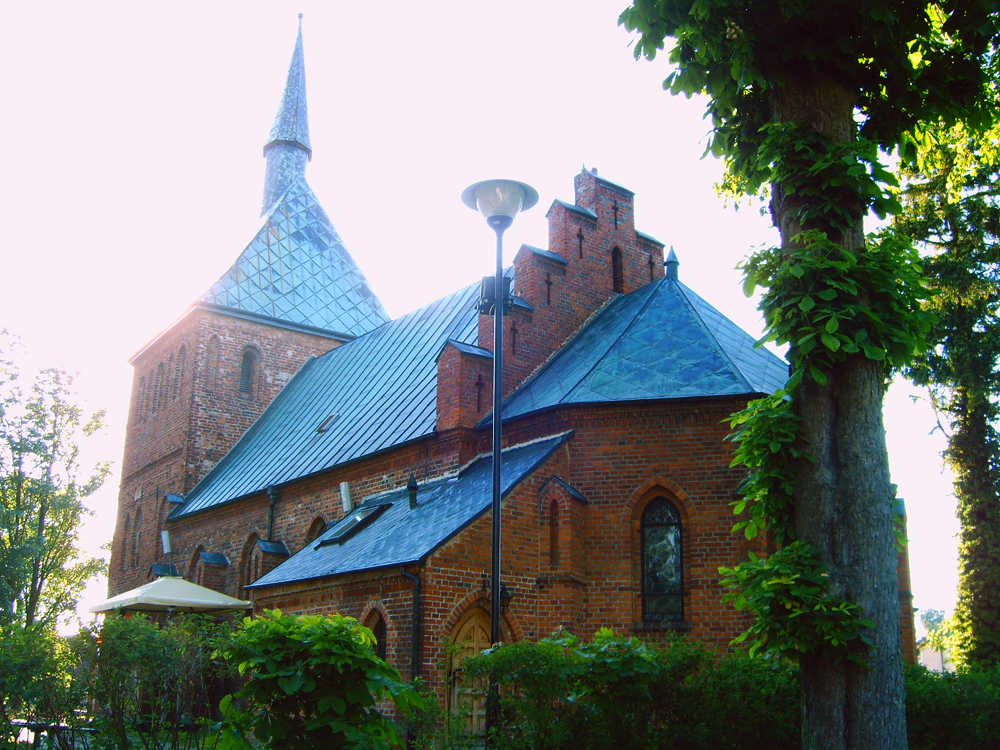 Poland, Mielno, Church of Transfiguration of Jesus